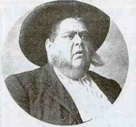 Portuguese actor Chaby Pinheiro (1873-1933) in Contemporanea (1915)